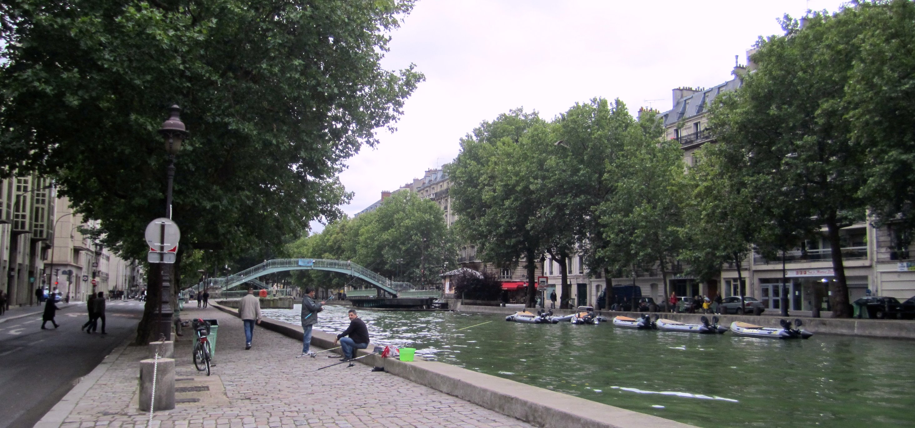 Passerelle Alibert over the canal Saint-Martin, Paris.